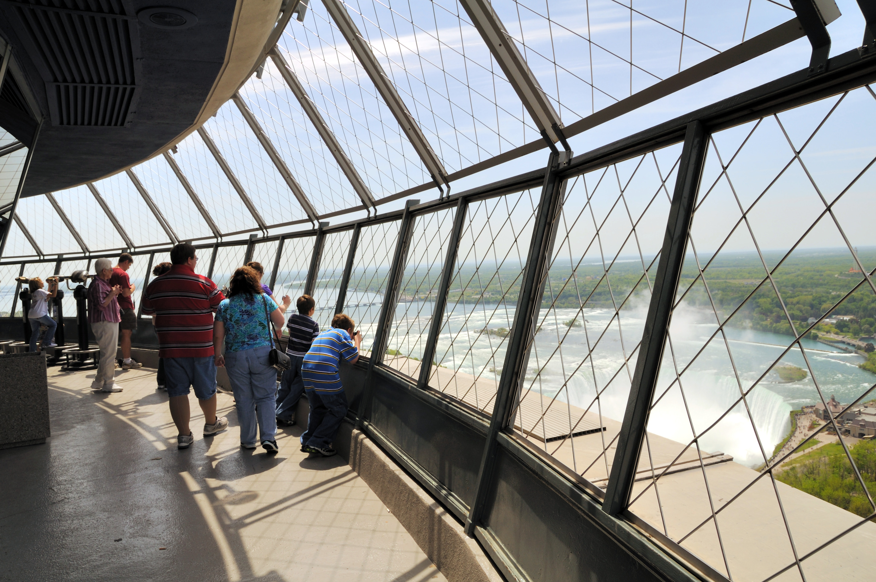 Sklyon Tower: observation deck